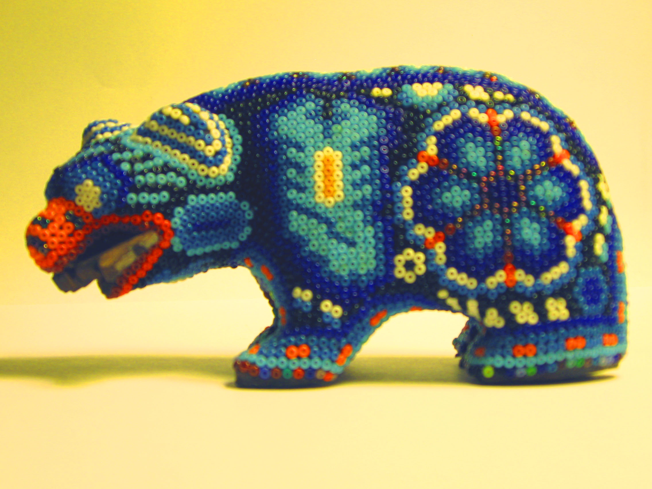 Blue Bear Huichol figurine with Scorpion and Peyote references